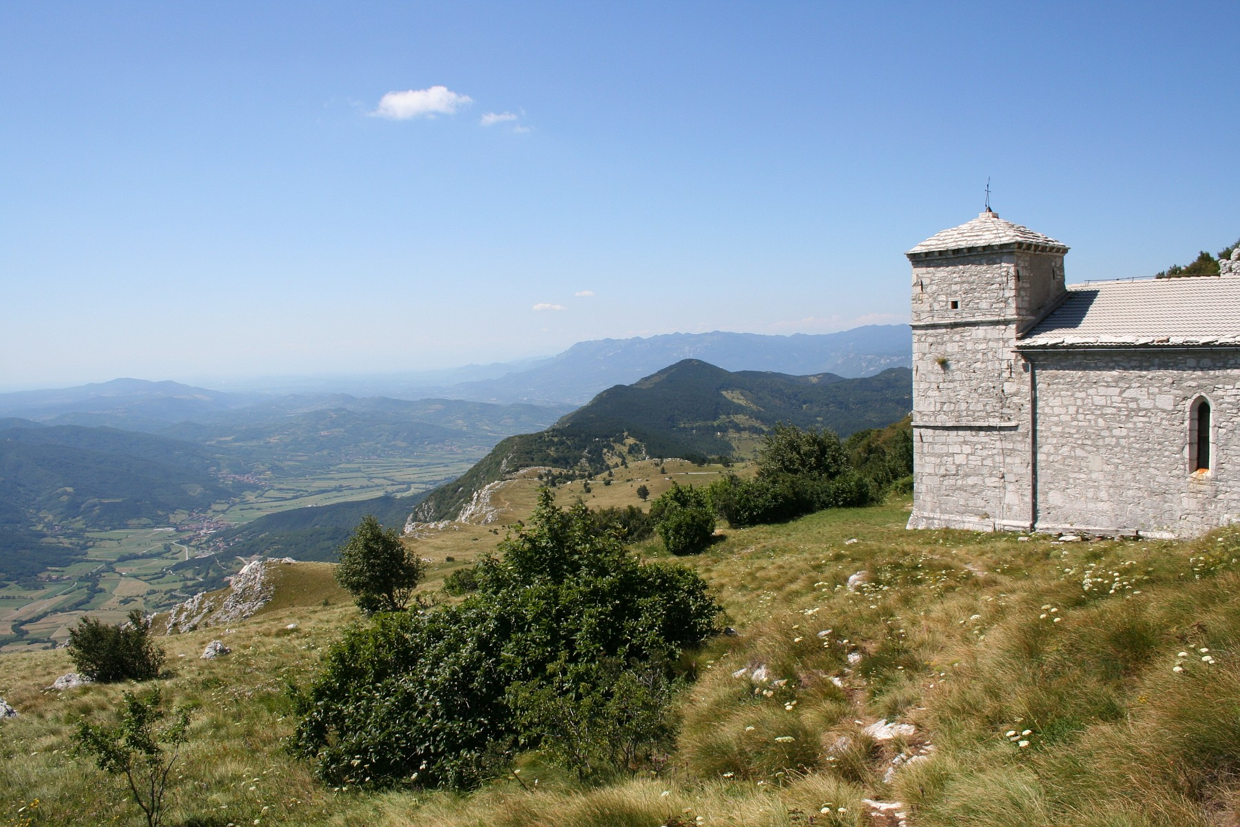 Nanos mountain, Sveti Jeronim